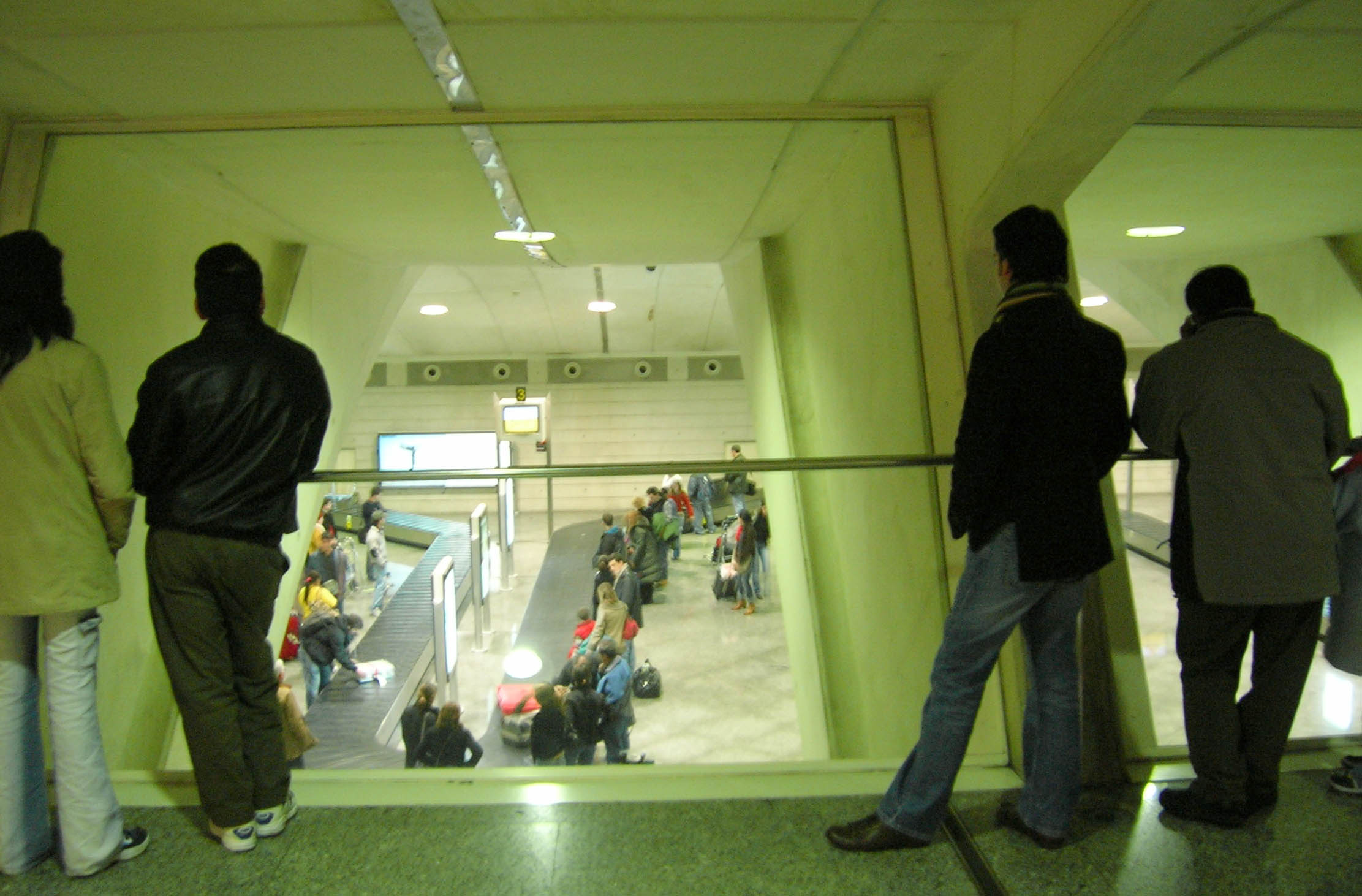 Bilbao (BIO) Airport terminal in Lujua/Loiu, Biscay.